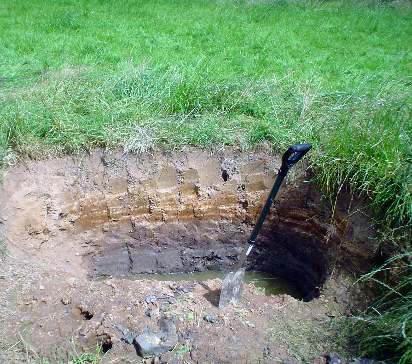 Gleysol